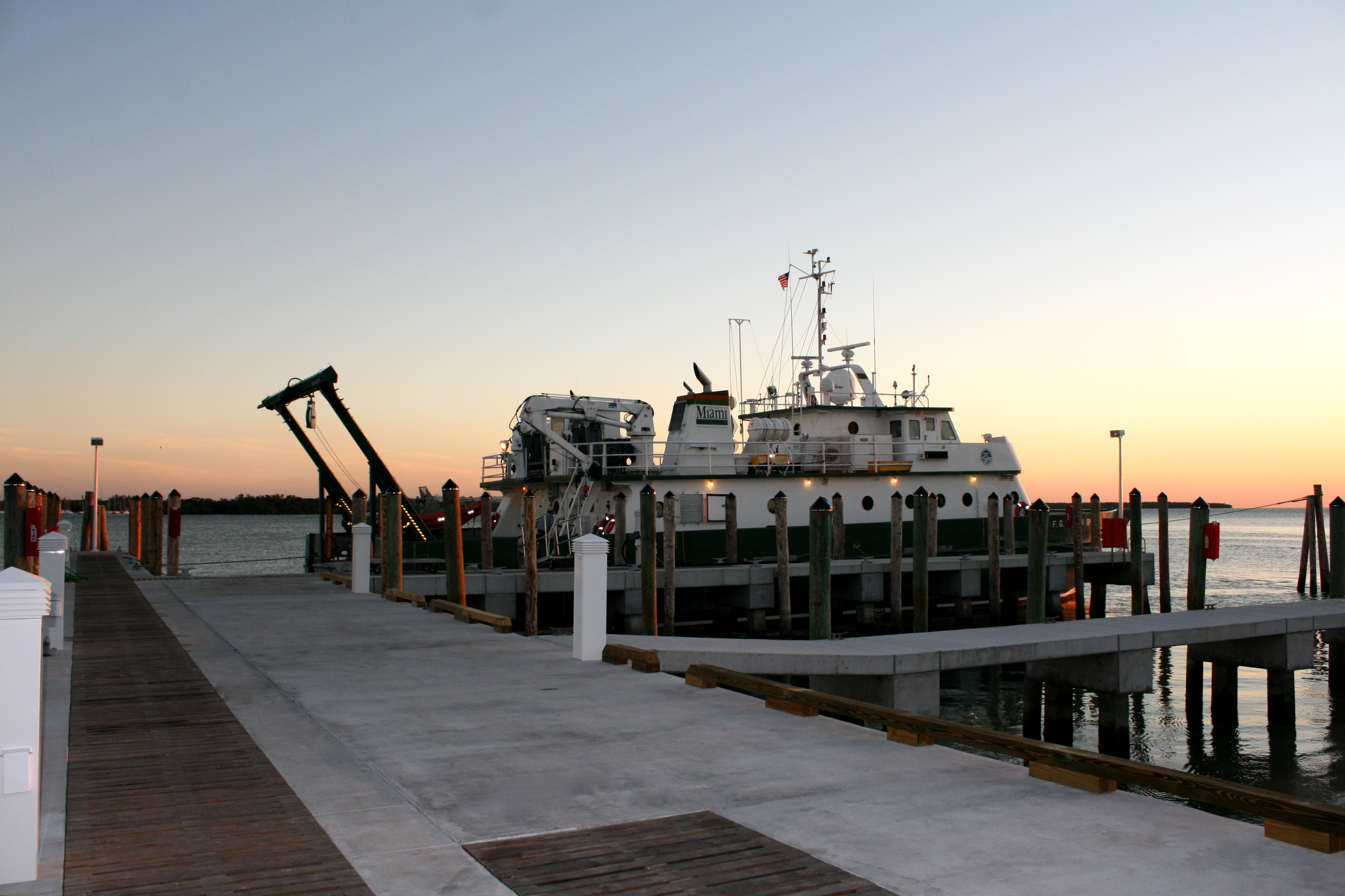 R/V F.G.Walton Smith